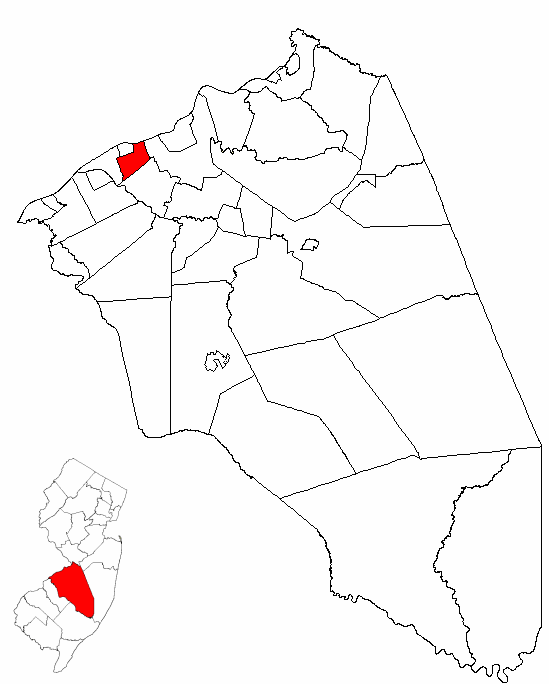 Map of Burlington County highlighting Edgewater Park Township